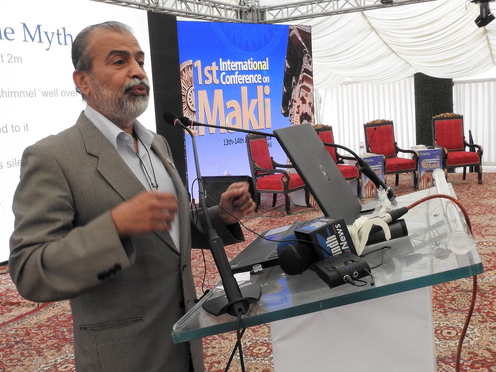 Dr. Kaleemullah Lashari a prominent archaeologist and historian is talking about Makli Necropolis in International Makli Conference on 13 January 2018